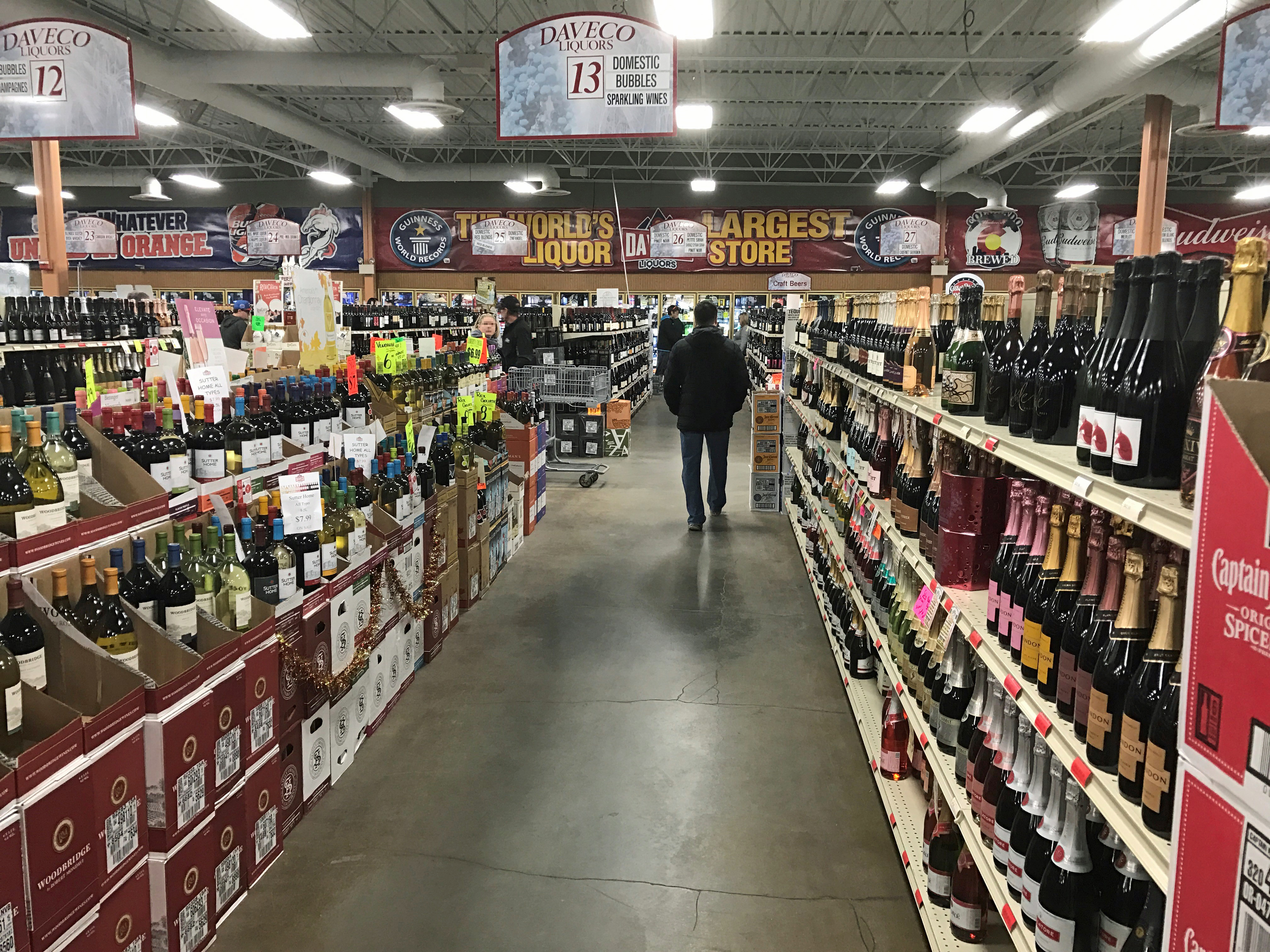 DaveCo Liquors, a liquor store located at 16434 North Washington Street in Thornton, Colorado.